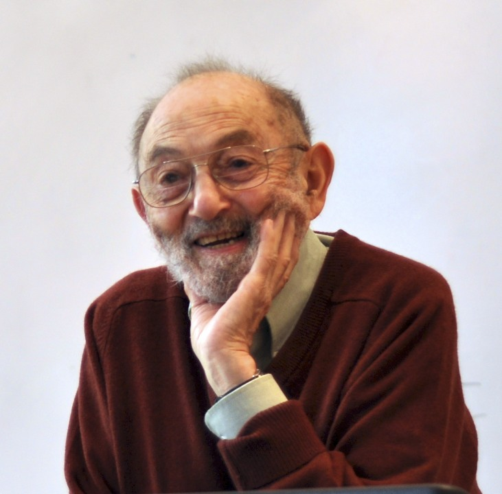 Morris Halle at the Formal Approaches to Slavic Linguistics conference at MIT, May 14, 2011, by Michael Yoshitaka Erlewine.